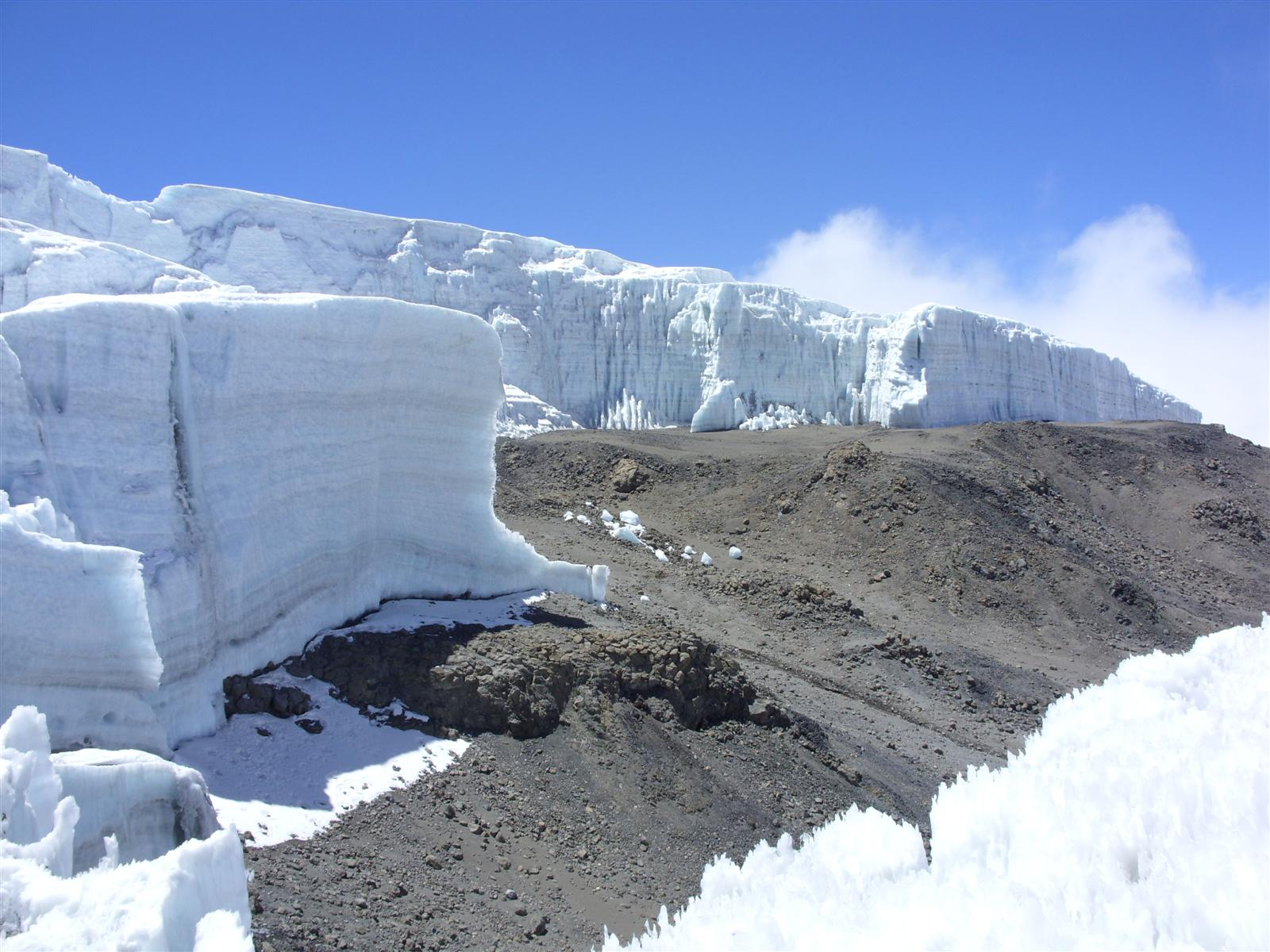 Lava_Expeditions_Credner_Glacier_3.jpg